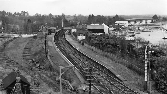 Bursledon Station. View NE, towards Fareham and Portsmouth; ex-London & South Western, Southampton - Fareham - Portsmouth secondary main line, electrified since 1990. At top right can be seen the bridge carrying this line across the River Itchen.